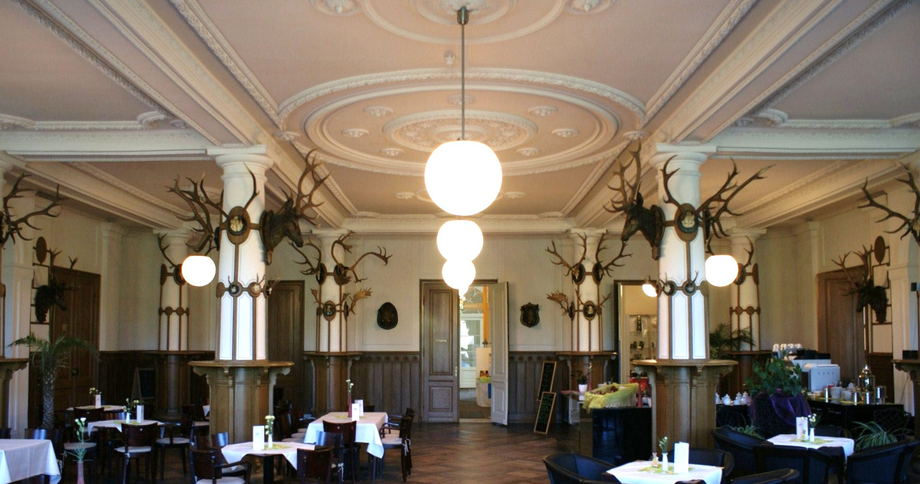 Ludwigslust Castle